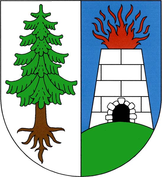 Municipal coat of arms of Smolné Pece village, Karlovy Vary District, Czech Republic.